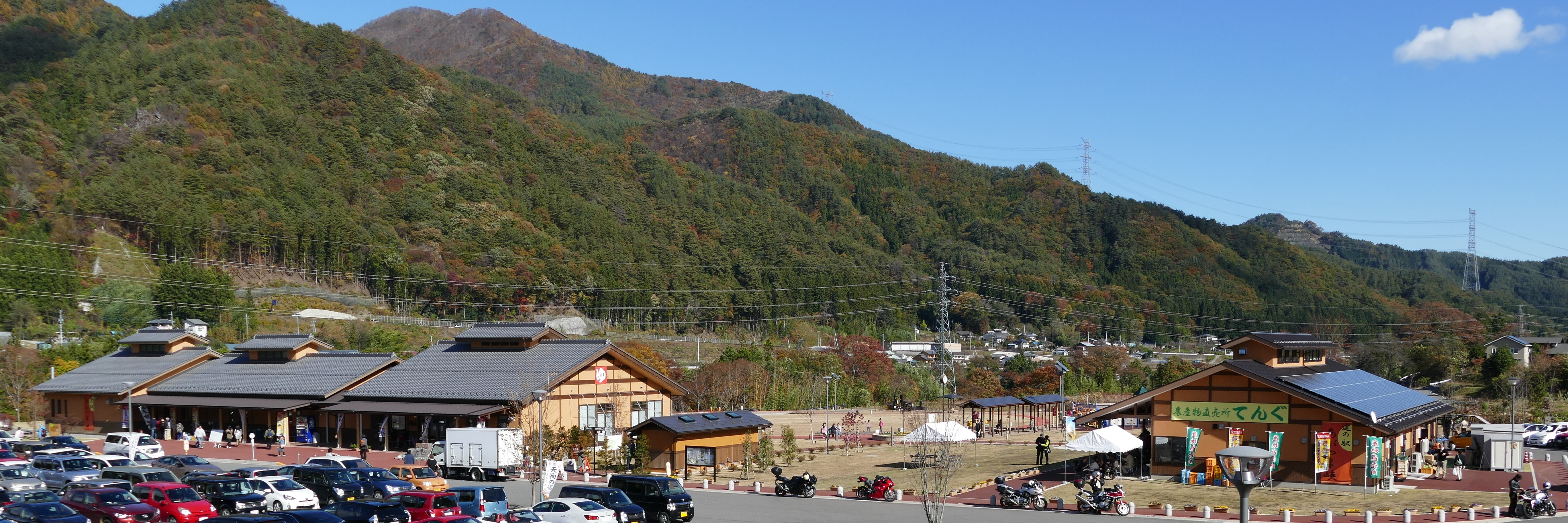 Roadside station Agatsuma canyon,Gunma prefecture,Japan